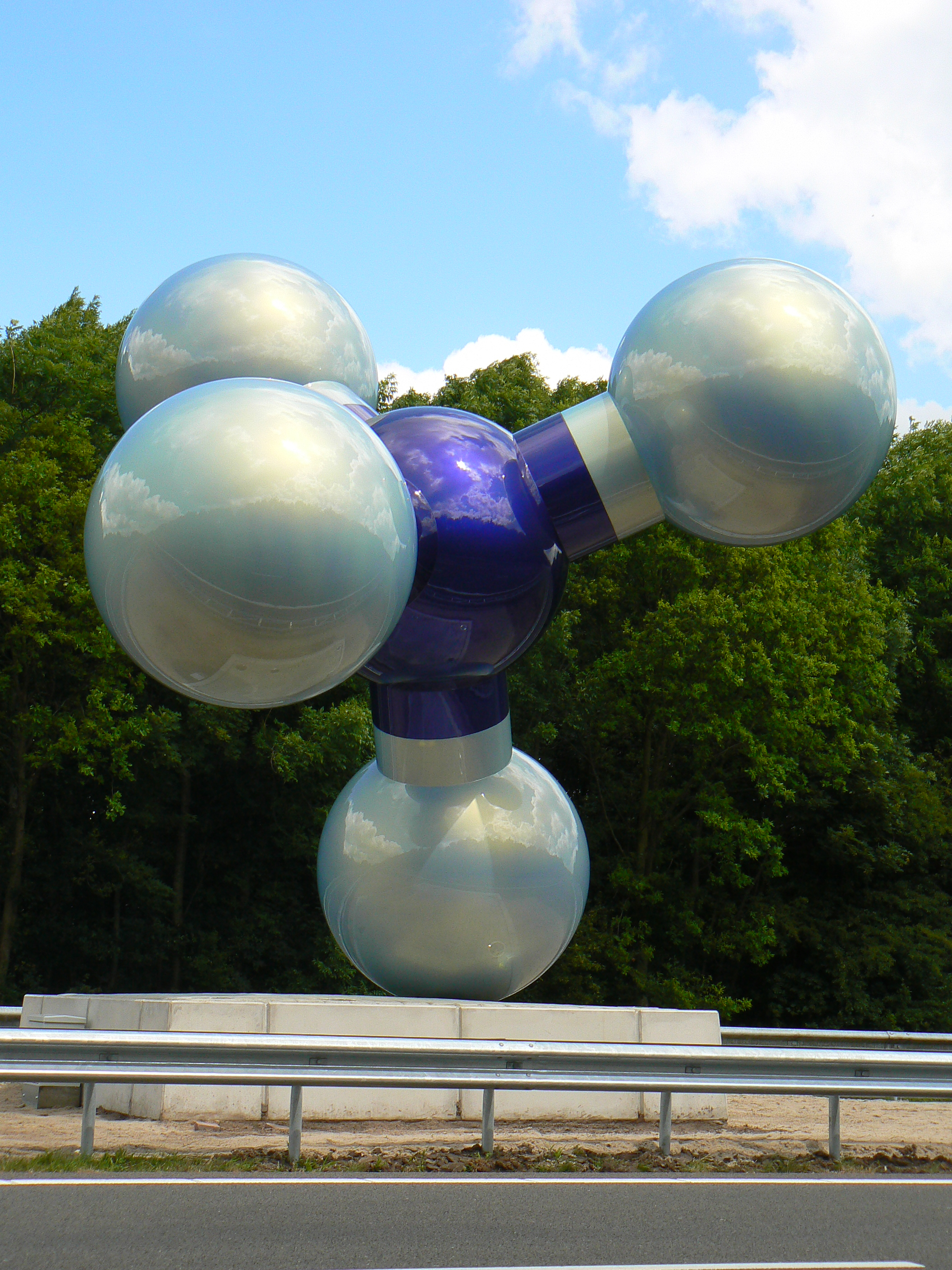 Sculpture Gasmolecule (2009) by Marc Ruygrok on the A7 in Kolham (gemeente Slochteren)/The Netherlands